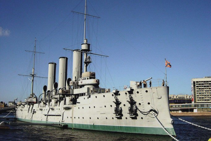 Russian protected cruiser Aurora, now a museum ship in St. Petersburg